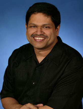 Somasegar's picture